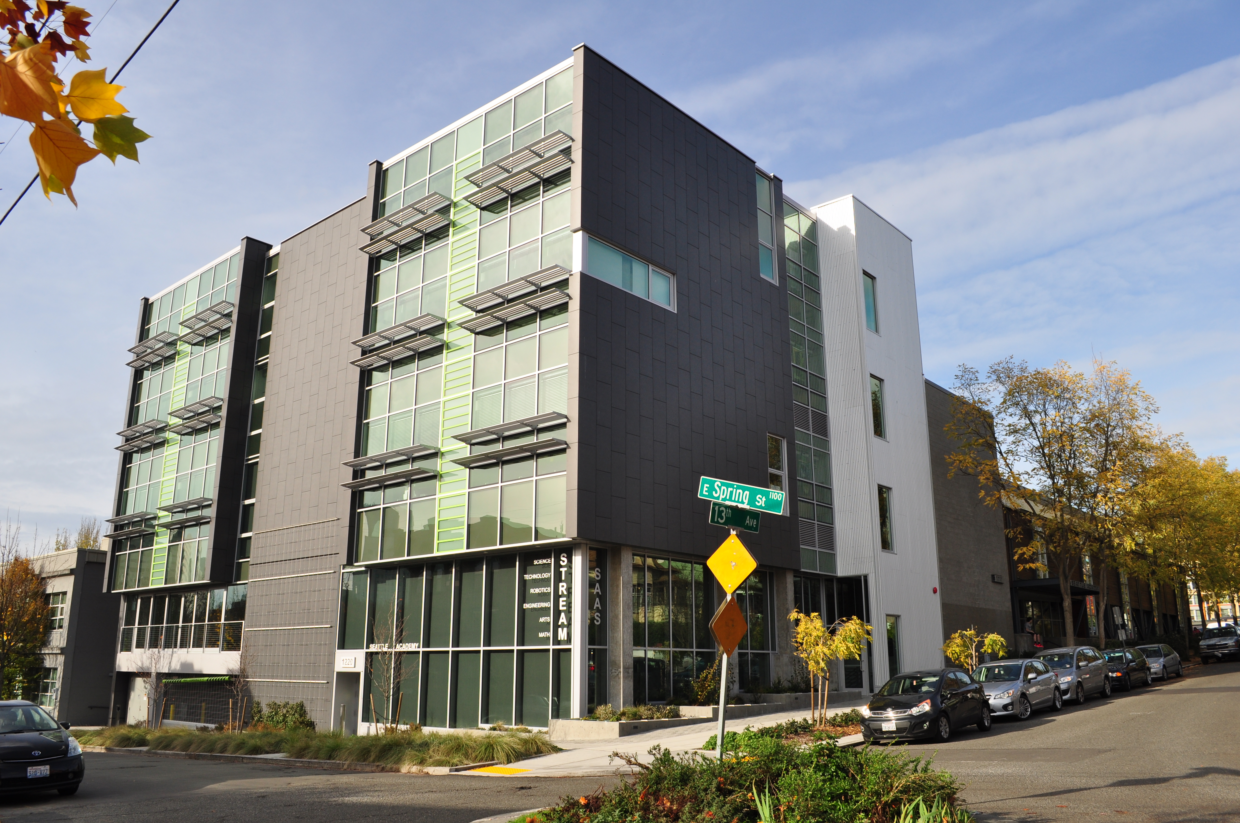 The new building of Seattle Academy of Arts and Sciences (SAAS) at the northwest corner of 13th Avenue and E. Spring Street, Seattle, Washington, U.S.